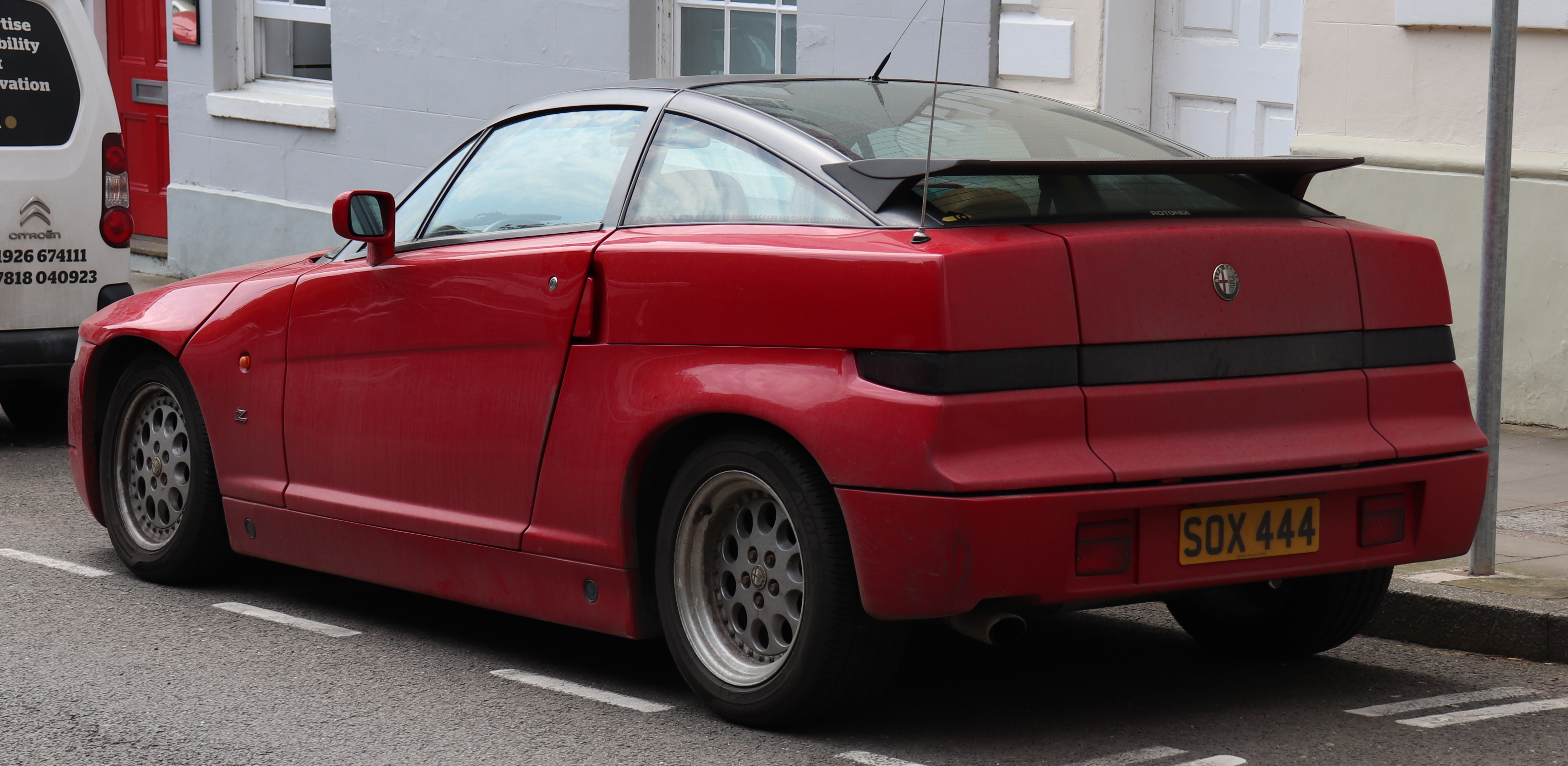 1990 Alfa Romeo SZ 3.0 Rear (Didn't except to come across this on my street. Only 11 registered in 1990 left.) Taken in Warwick